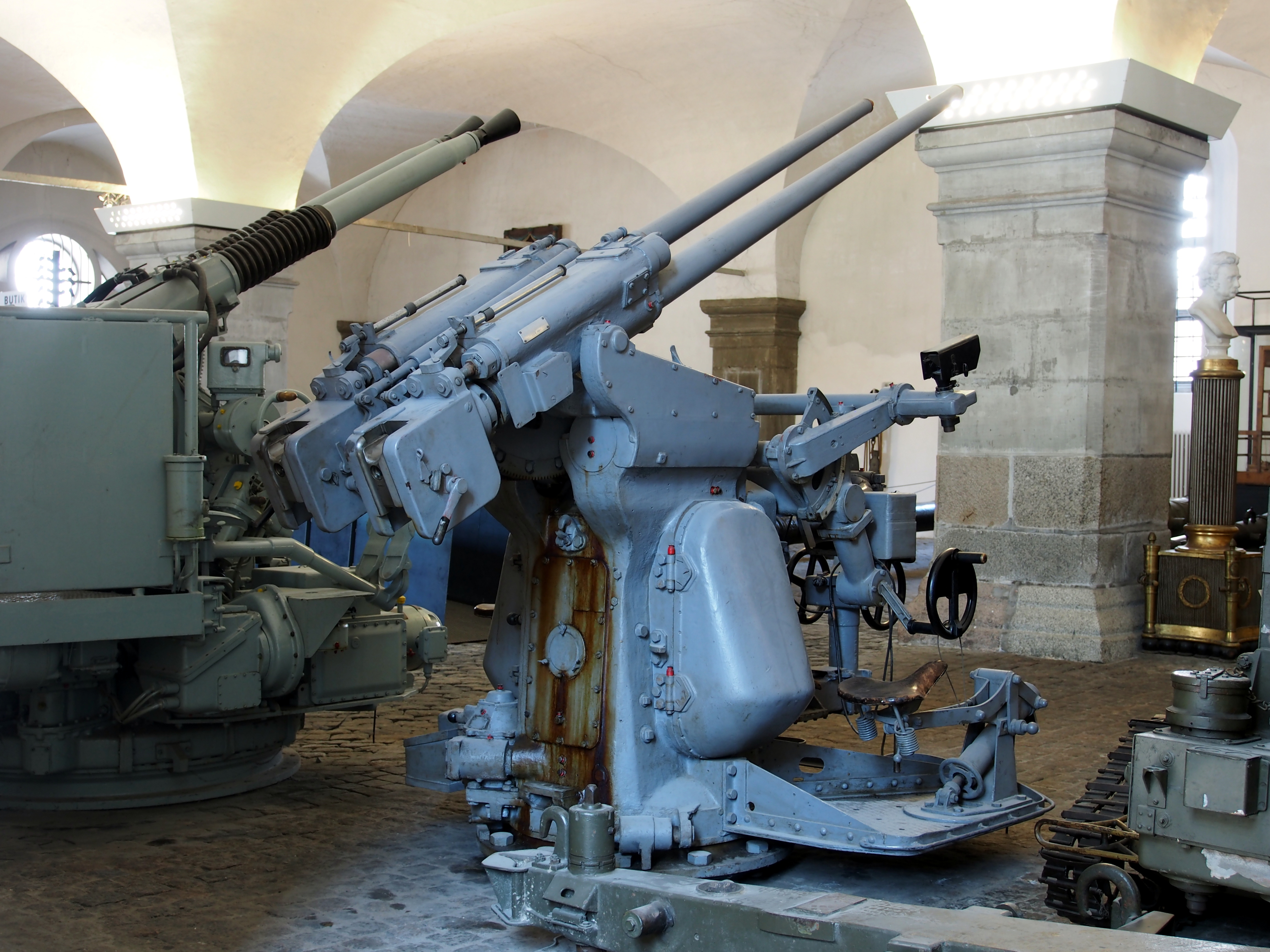 Photographed at the Royal Danish Arsenal Museum (Copenhagen)